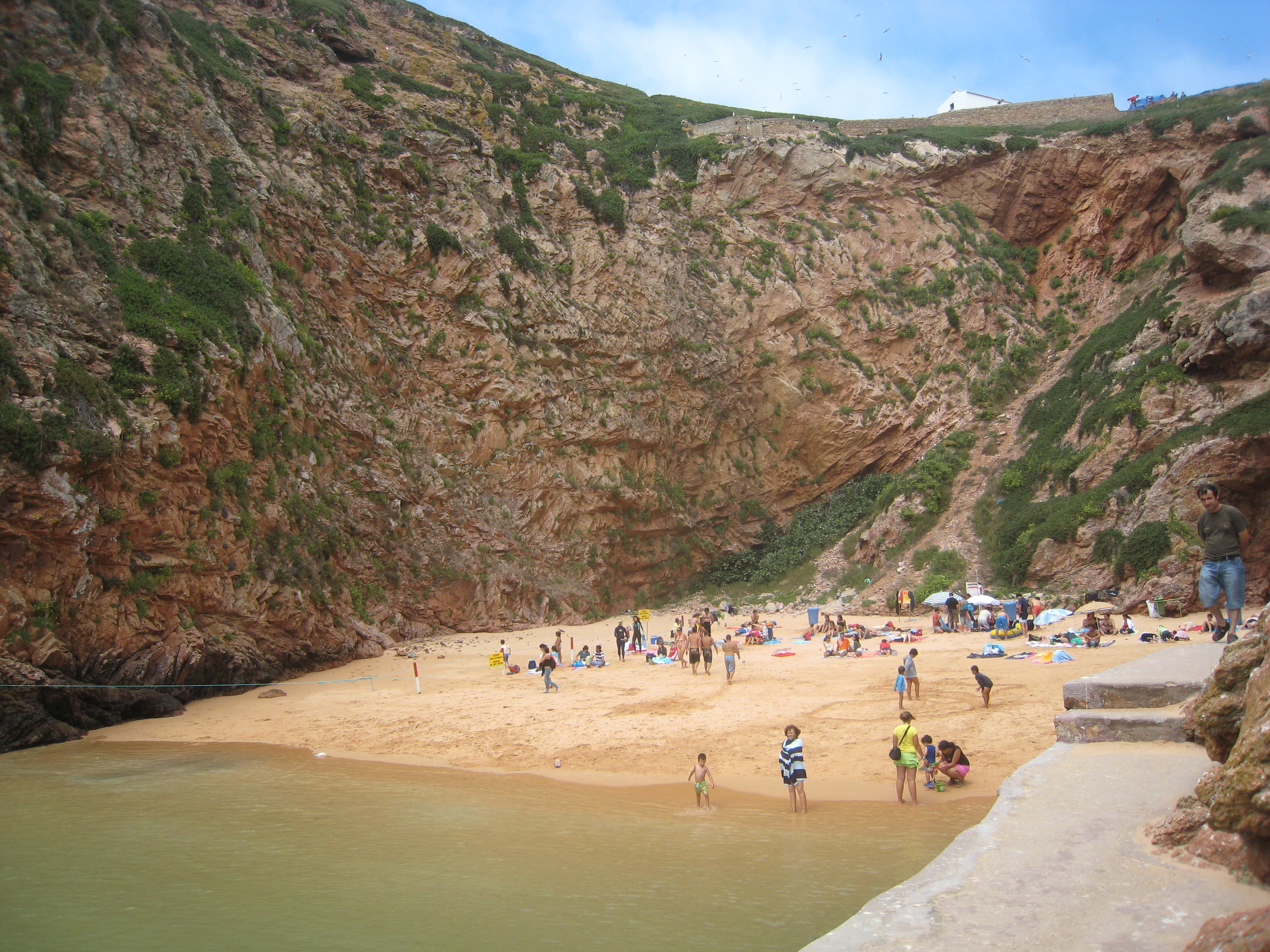 Berlengas, Portugal